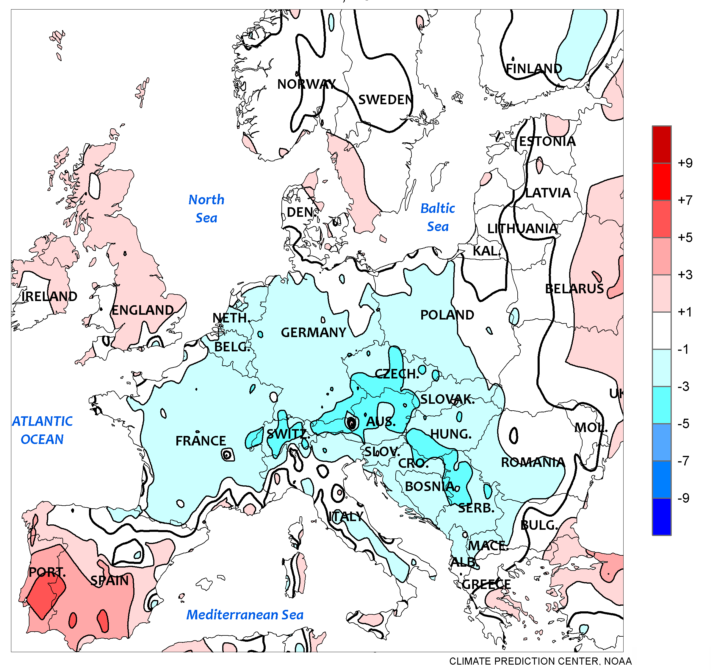 Europe: Temperature Anomaly May 11-17, 2012, computer generated contours, based on preliminary data